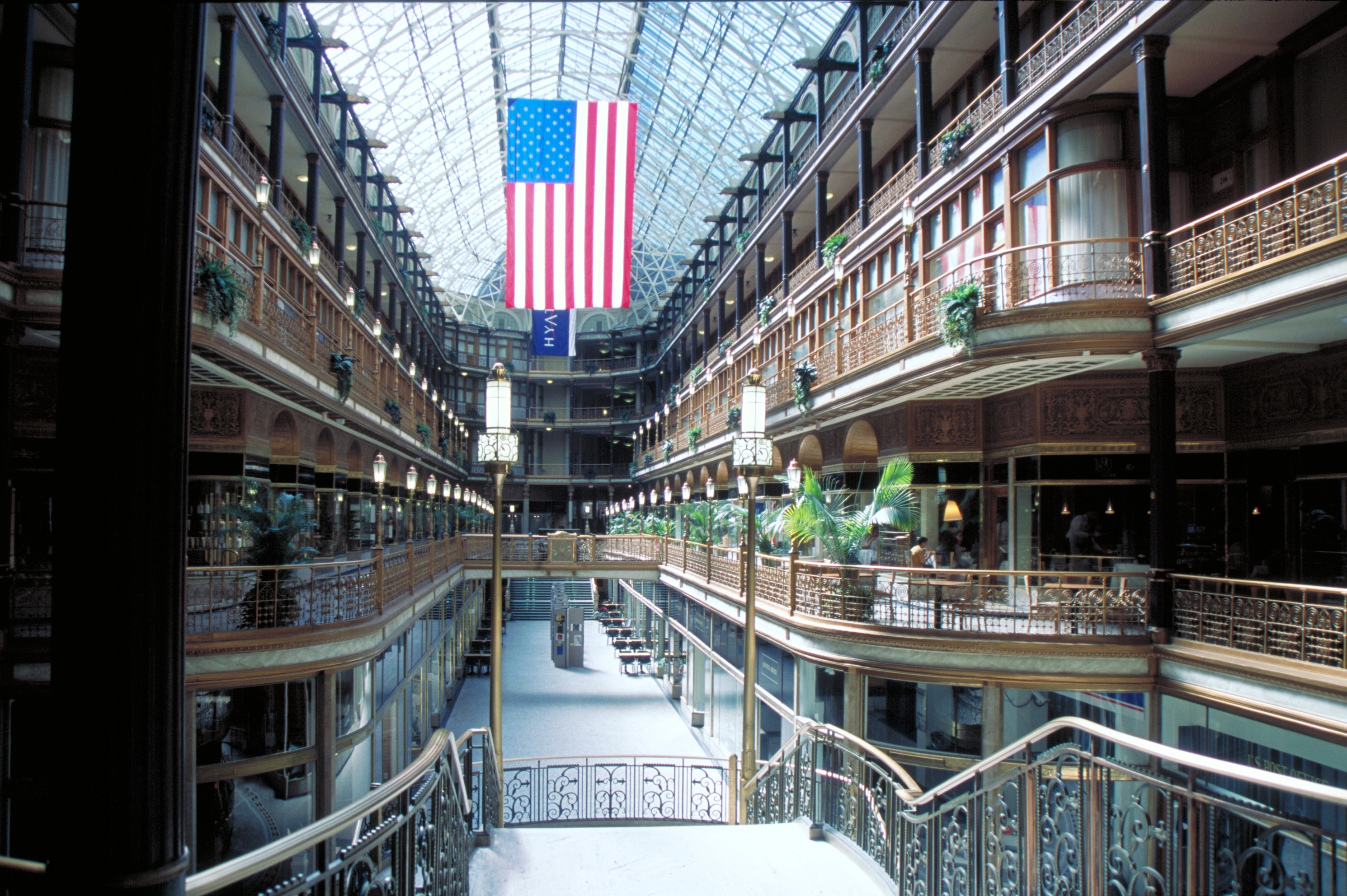 An American flag hangs from the ceiling of the Cleveland Arcade.